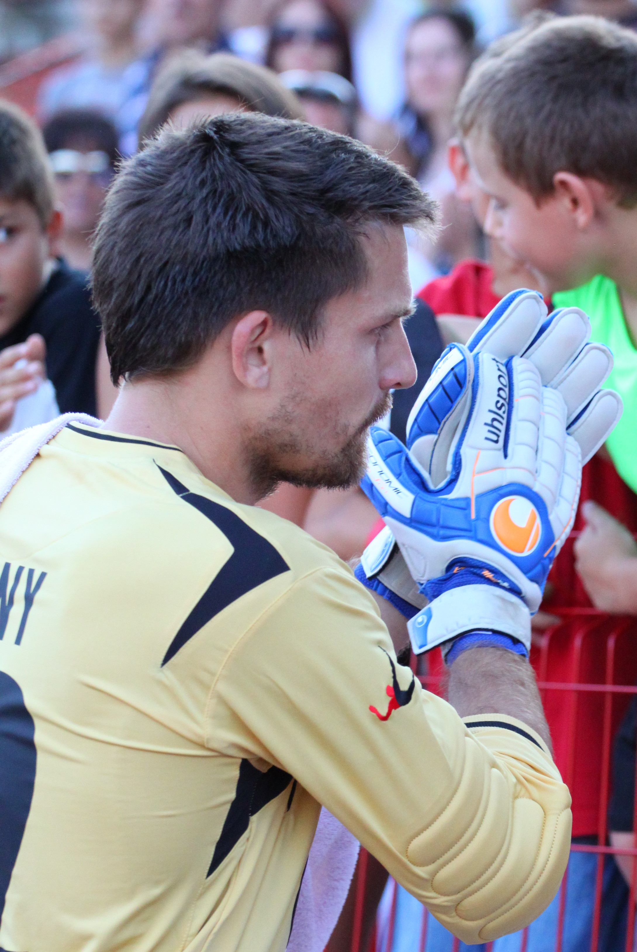 Tomáš Černý (born 10 April 1985) is a Czech professional goalkeeper who currently plays for CSKA Sofia in the Bulgarian A Professional Football Group.